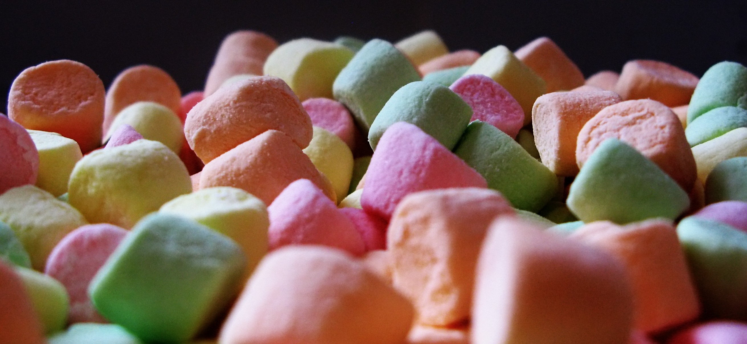 Marshmallows